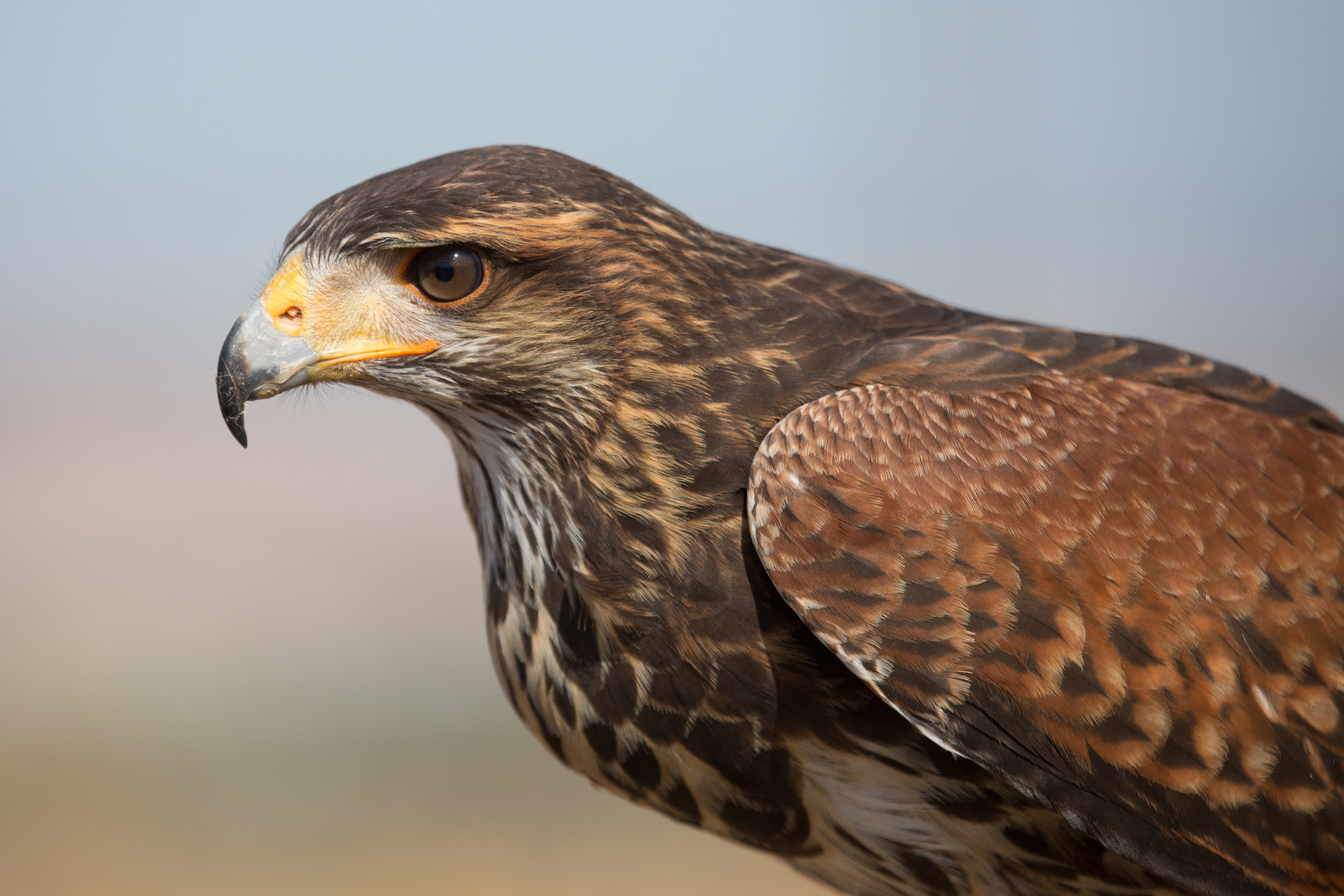 Harris's Hawk (Parabuteo unicinctus) in the Community of Madrid, Spain.